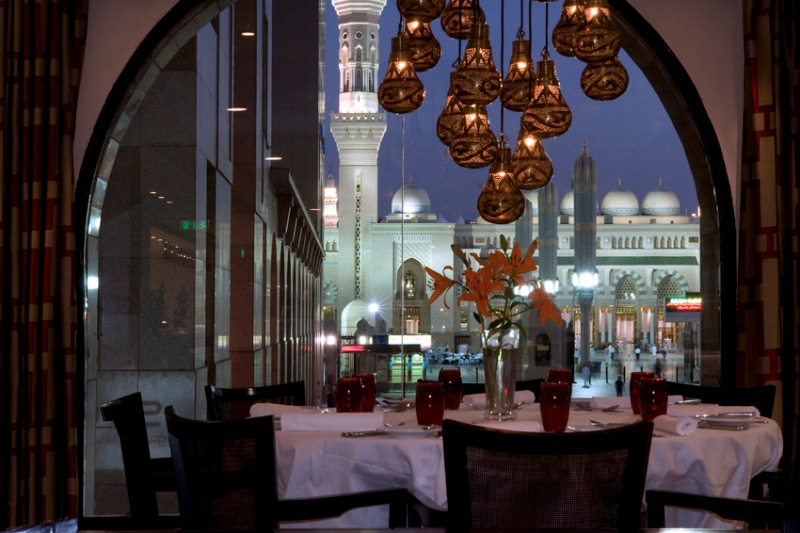 View of the Harem from Arabesque Restaurant. Arabesque is a light and airy restaurant with a superb view overlooking the Holy Masjid. It features an open show kitchen where chefs dramatically prepare and serve cuisines from North Africa and the Levant to Persia and South East Asia right in front of our guests.Located on the mezzanine level with a seating capacity of 140, Arabesque has something for everyone. Various and live cooking methods from shawarmas, tandoor, grilled kebabs or wok; to a great pastry section featuring Syrian teppanyaki ice cream, deliciously famous knefeh from the Levant or refined pastries. The restaurant occupies a beautiful location with fine tableware and crisp linen. When night eventually falls, Arabesque transforms entirely when our centrepiece on each table – a handmade Mashrabiya inspired Turkish lamp illuminates the space casting an atmosphere of delicate warmth. Whether breakfast, lunch or dinner, Arabesque is the perfect place to experience the many wonderful cuisines of the Eastern world and share the joy of sharing and eating together with family and friends. Opening Hours: Open daily from 7:00 am to 11:30 pm